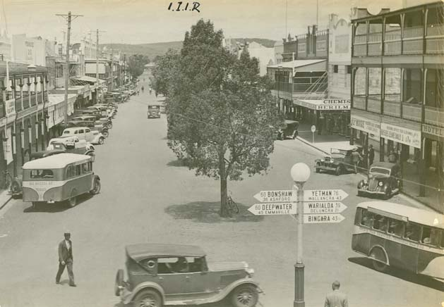 Byron Street, Inverell Dated: No date Digital ID: 12932-a012-a012X2444000060 Rights: We'd love to hear from you if you use our photos. Many other photos in our collection are available to view and browse on our website using Photo Investigator.